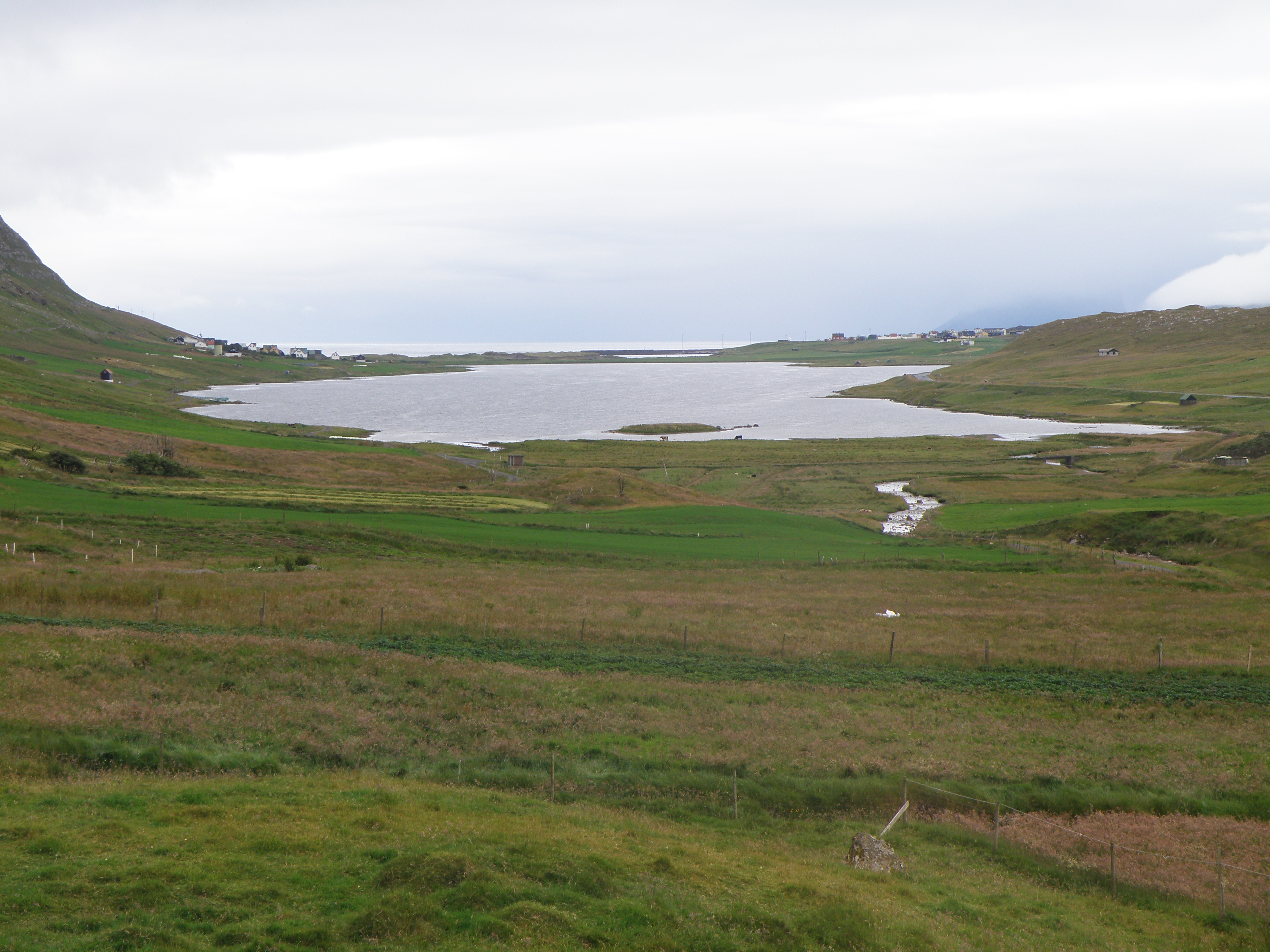 Sandsvatn is a lake in Sandoy island in the Faroe Islands. Sandsvatn is the third largest lake in the Faroe Islands. The lake is located north of the village Sandur and south of the village Skopun. The road which connects Skopun with Sandur passes by the lake. The football field of B71 Sandoy is near the lake. Føroyskt: Sandsvatn er eitt vatn á Sandoynni, tað liggur norðanfyri Sandsbygd, tætt við "Inni í Dal" har meginskúlin og fótbóltsvøllurin hjá B71 er. Vegurin millum Skopun og Sand fer framvið Sandsvatni. Sandsvatn er triðstørsta vatn í Føroyum.